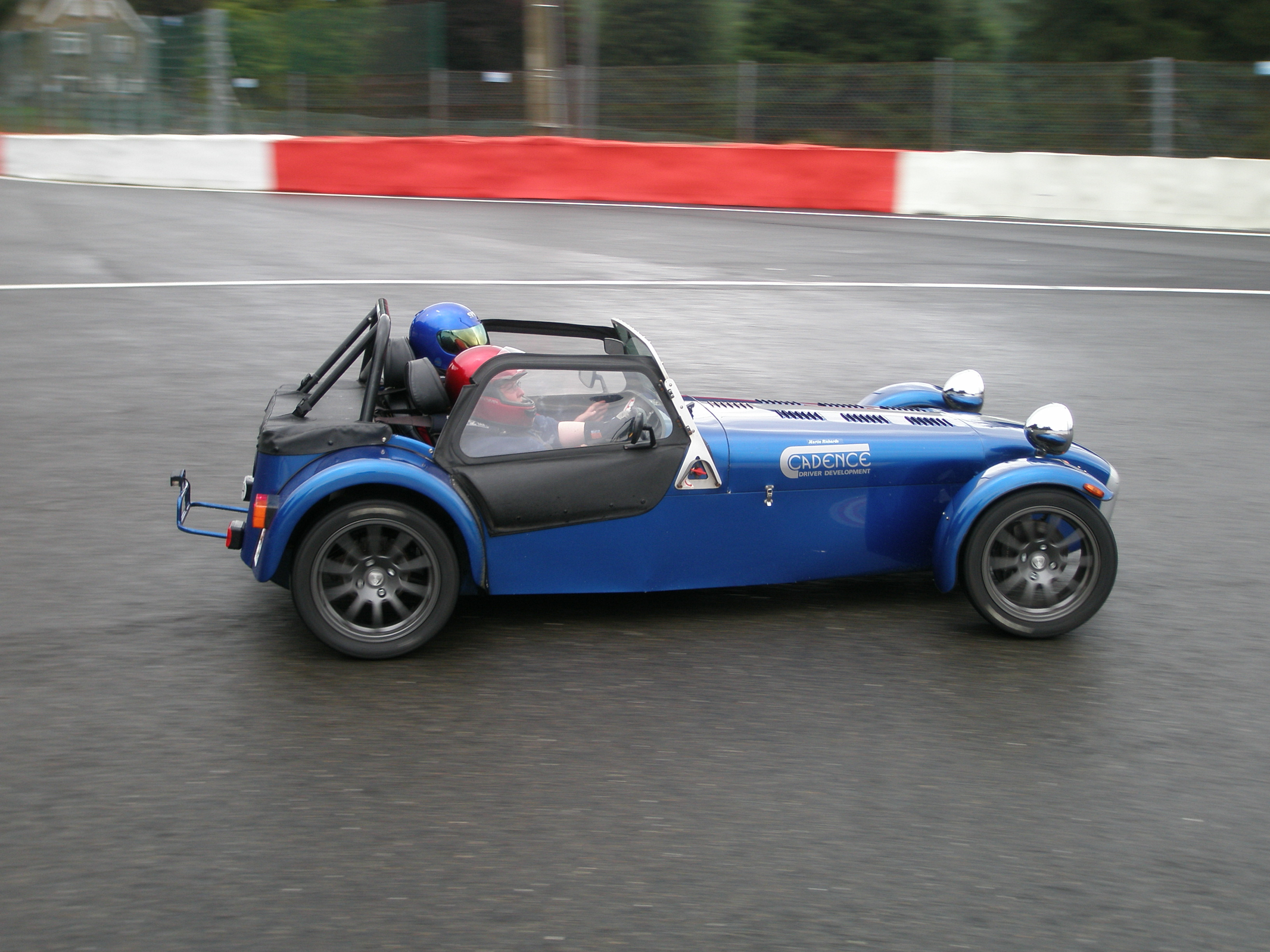 Caterham 7 on track at Spa Steve Marsh, Taken by Steve Marsh, can be copied freely provided it is attributed to "Steve Marsh, Lotus 7 Club of Great Britain".